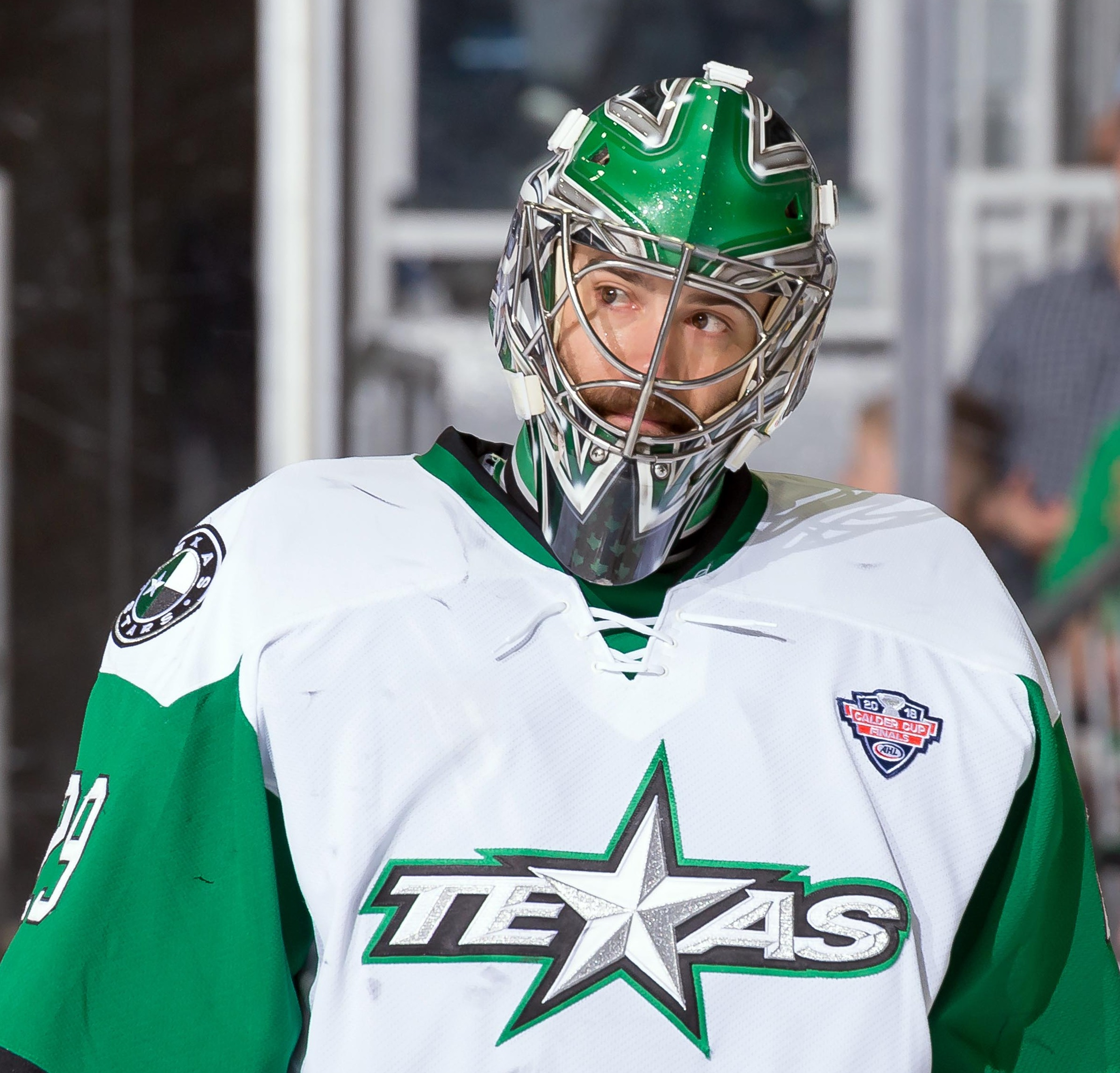 Mike McKenna; Photo: Christian Bonin